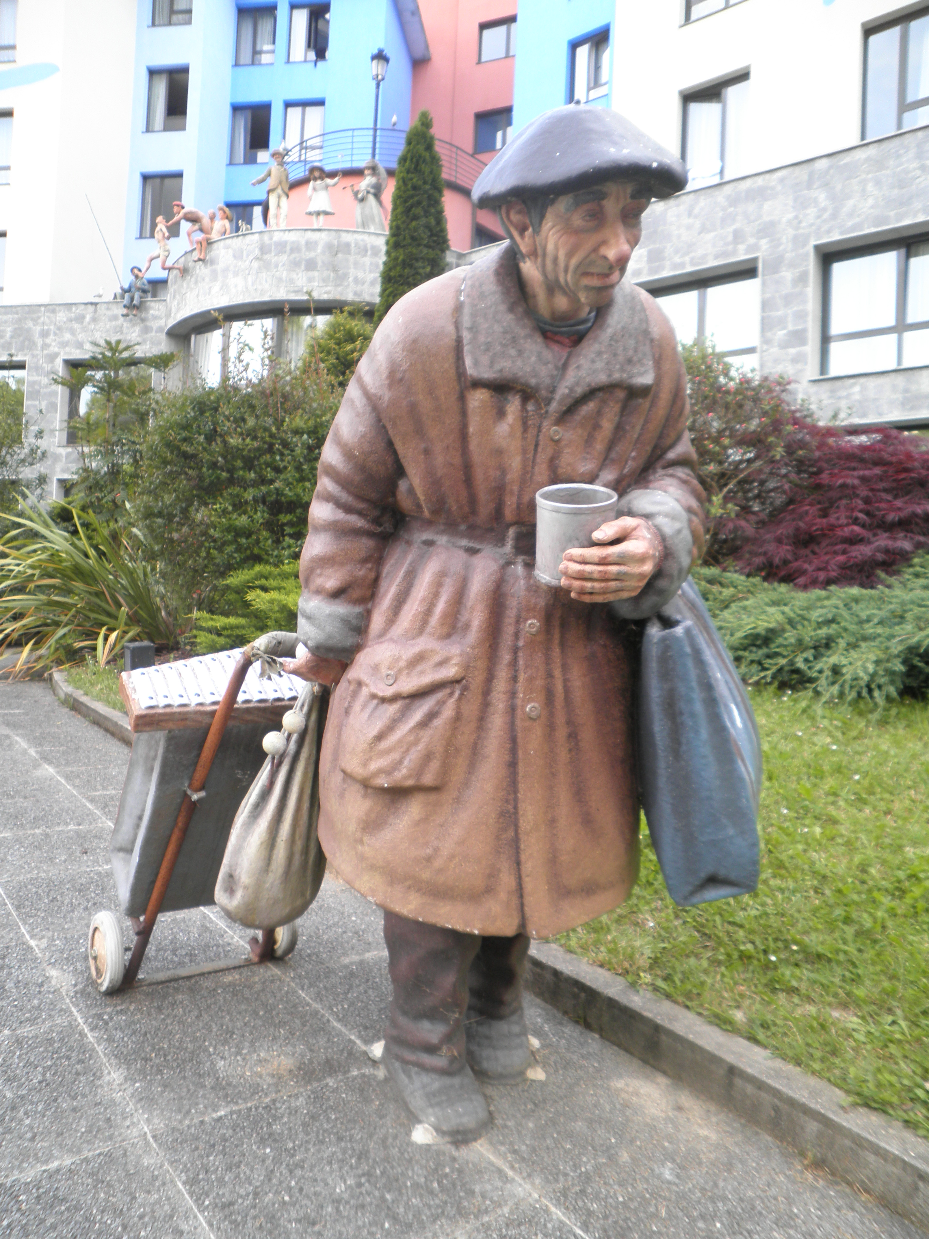 Sculture in Donostia depicting Txantillo named street musician.